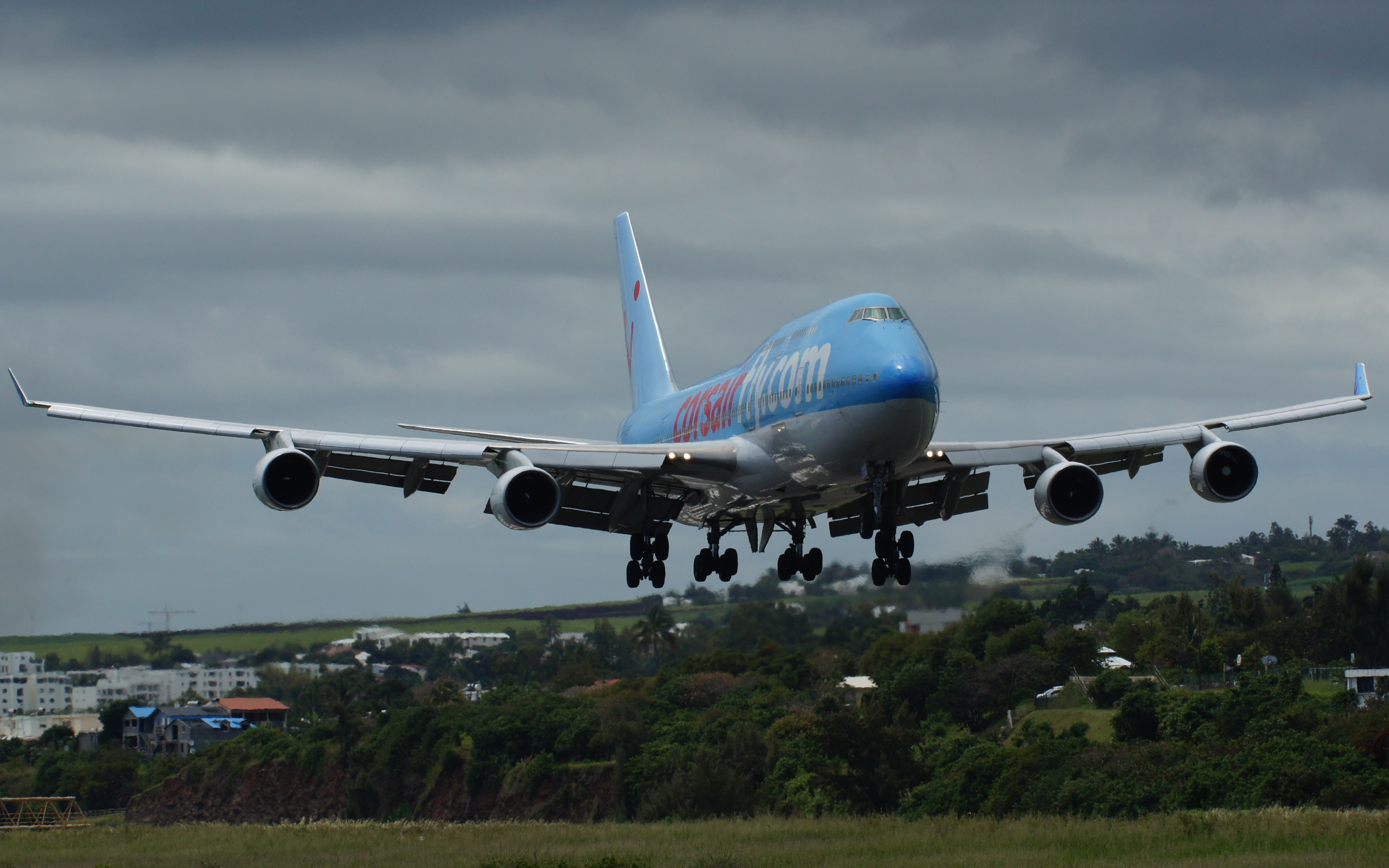 Corsair Boeing 747-400 registered F-HSEX landing at Roland Garros Airport, Réunion.